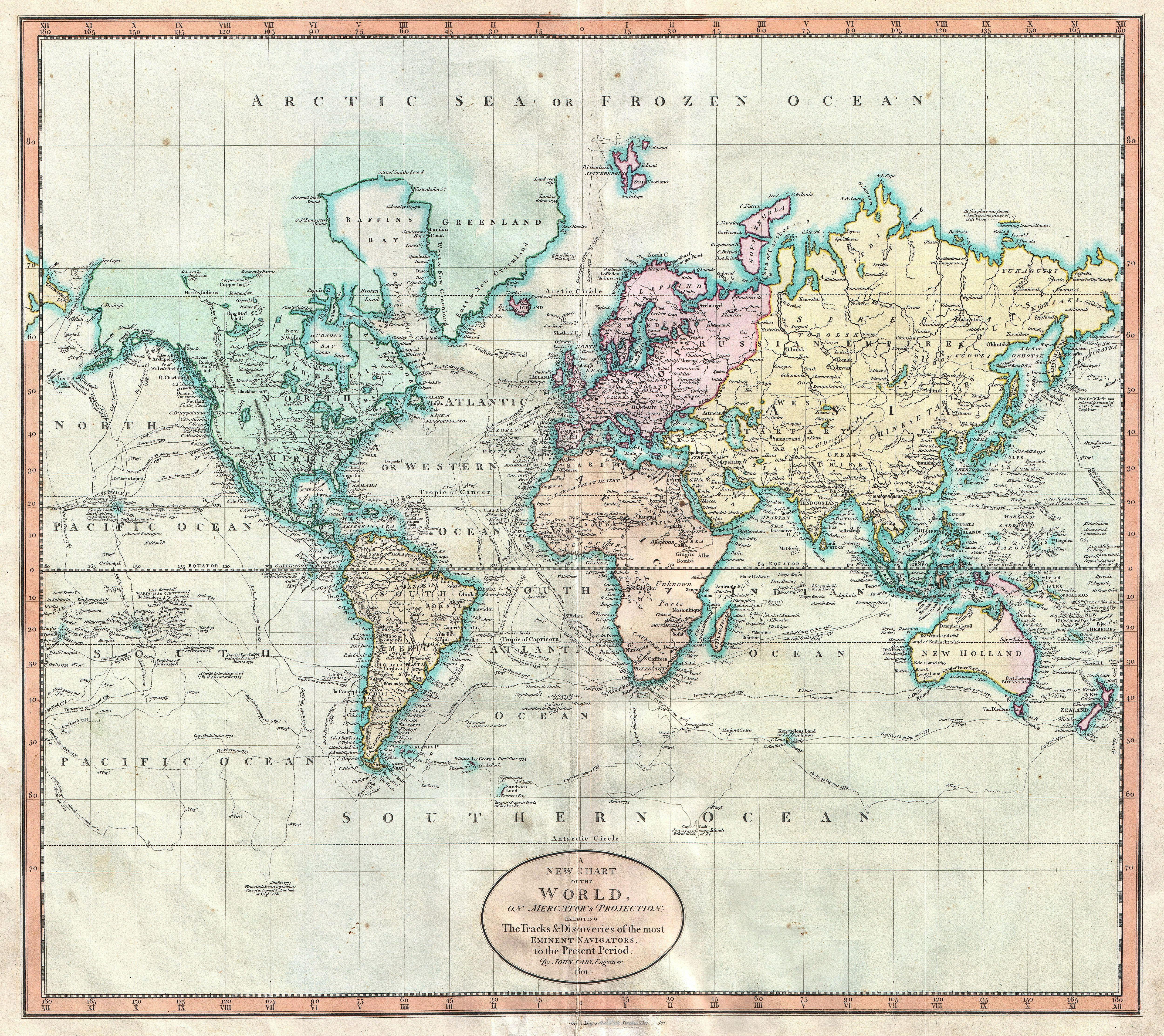 John Cary’s wonderful 1801 Map of the World on Mercator’s Projection. Details the entire world as it was known at the turn of the 19th century. Displays the continents in considerable detail but offers only minimal information in the Arctic and Antarctic latitudes. Designed to illustrate the explorations of the previous century, focusing specifically on the important explorations of Cook, Vancouver, Perouse, and Gores. Offers copious notations on explorations and unconfirmed discoveries throughout. Prepared in 1801 by John Cary for issue in his magnificent 1808 New Universal Atlas .